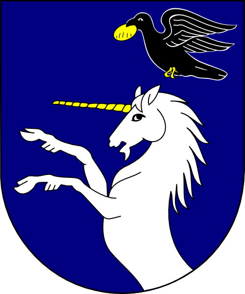 Coat of arms (shield only) of Juraj (György) Utješinović - Martinuzzi (Brother George), Roman Catholic Cardinal (born in Kamičak, Croatia, June 18th, 1482 - died in Alvinc, December 17th 1551), bishop of Csanád, Hungary (1536 - 1539), bishop of Oradea Mare, Romania (1539 - 1551), archbishop of Esztergom (1551). Based on seal and memorial in Sajólád.